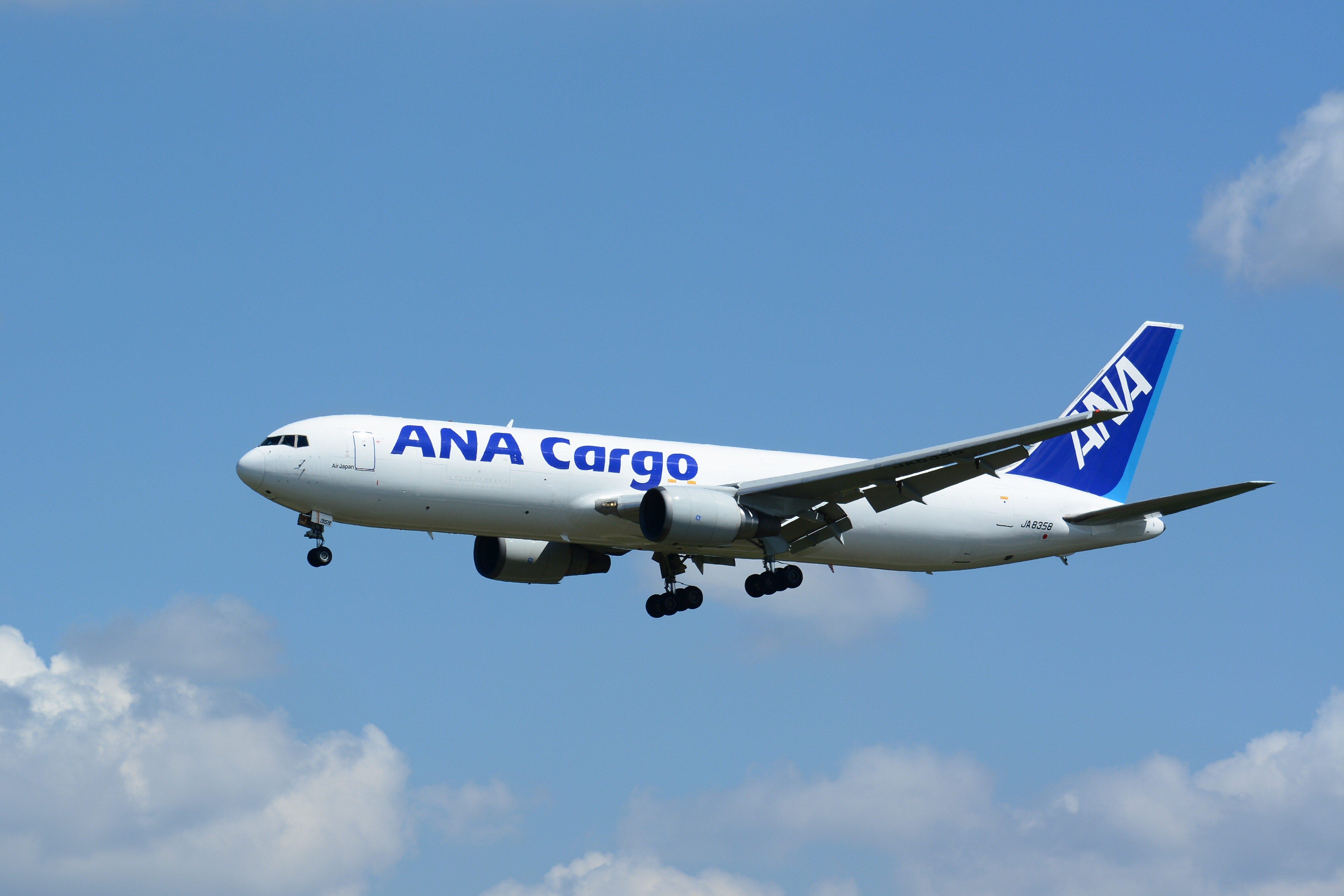 All Nippon Airways Boeing 767-300 BCF JA8358 NRT